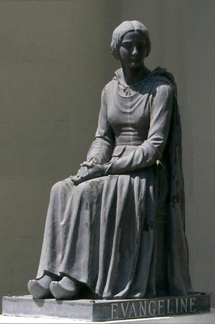 Statue of Evangeline (Emmeline Labiche) in St. Martinville, Louisiana [photo cropped/trimmed to remove pipe/window behind statue].